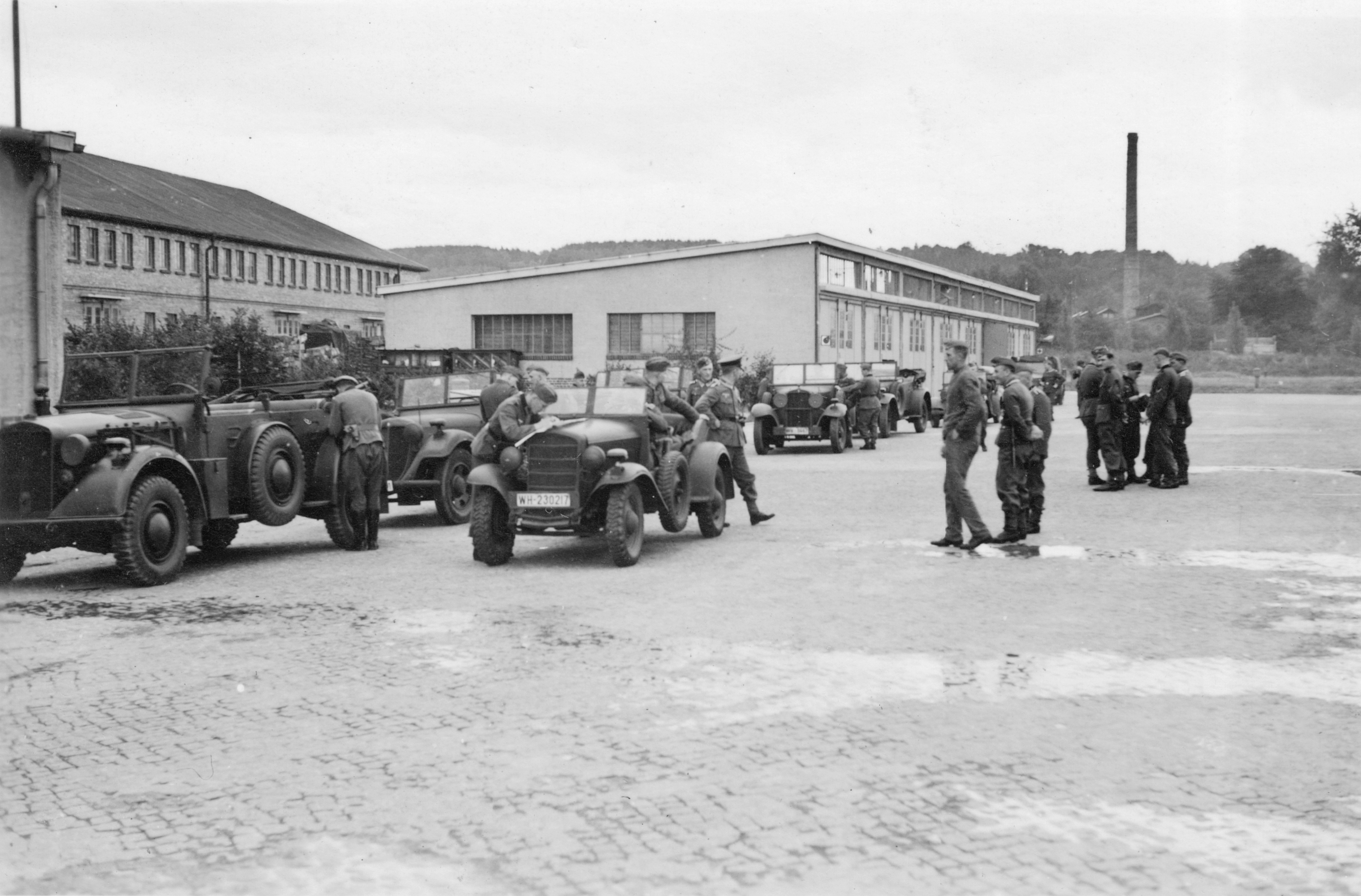 From left: Horch 901, Wanderer W22 Kübelwagen, Opel P4 variant?, Wanderer W 11 Kübelwagen in Hildesheim.